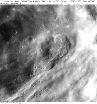 AS15-M-0305 This is a closeup of a flow structure on the western floor of Patsaev Q. The central pit to which the name Kira applies is the dark feature in the center of the frame.